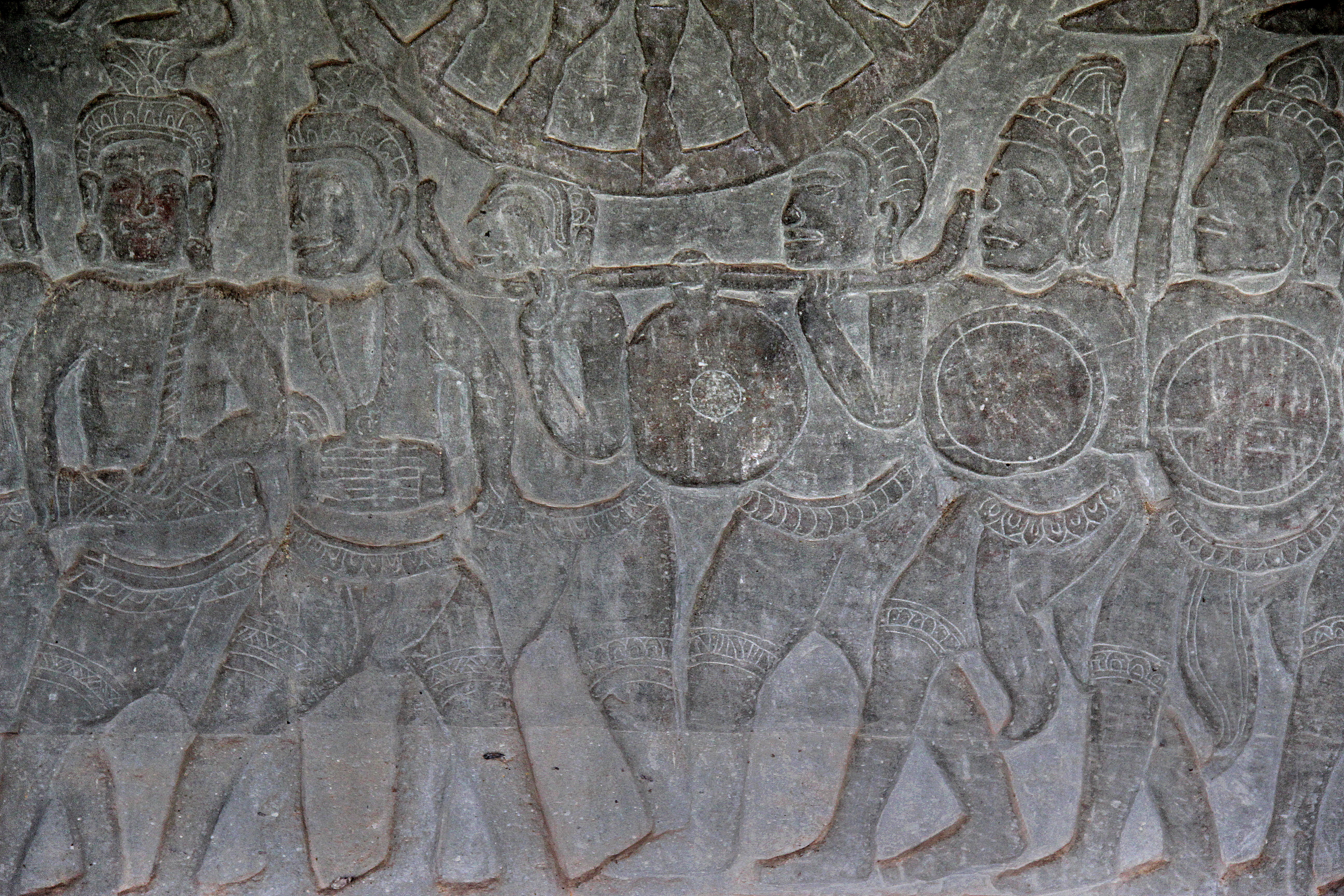 Musicians with carrying a nipple gong on their soldiers. Two drums on the left side of the image.